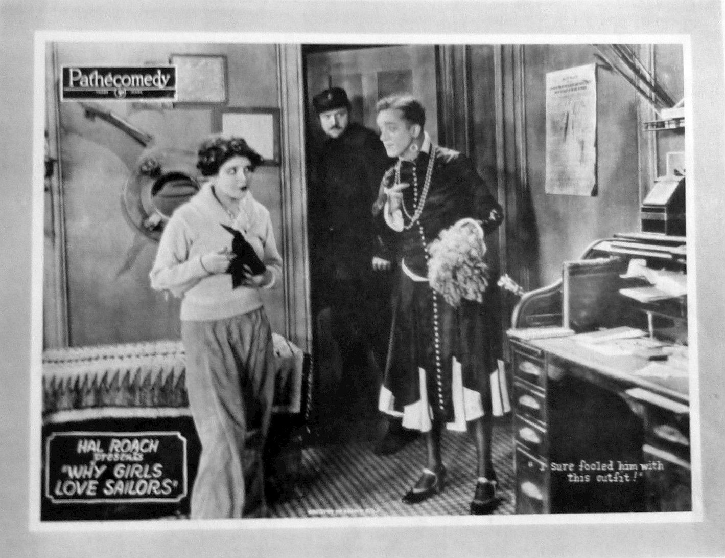 Lobby card for the American comedy film Why Girls Love Sailors (1927). There are no copyright marks on the card. At bottom is Country of origin USA.